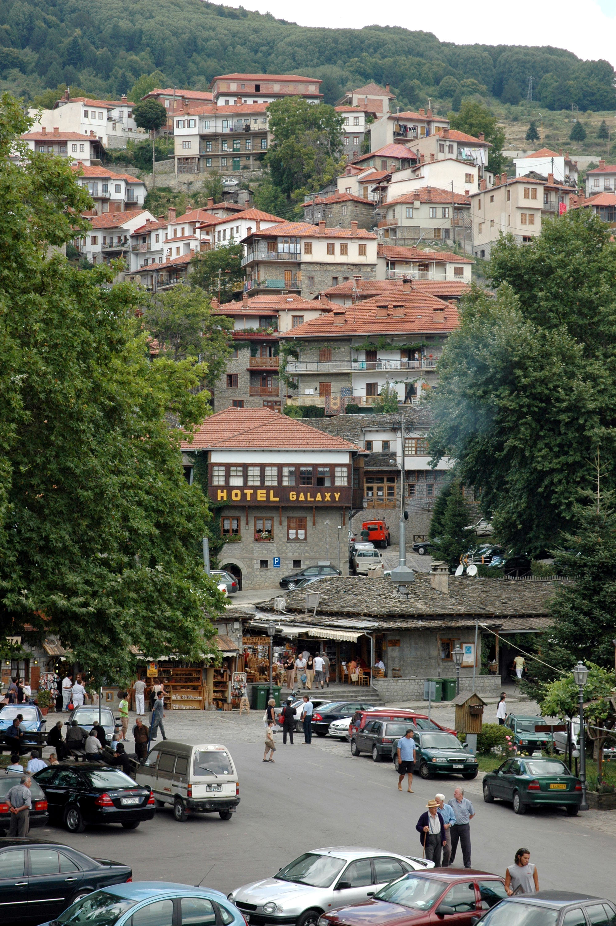 The center of Metsovo, Greece